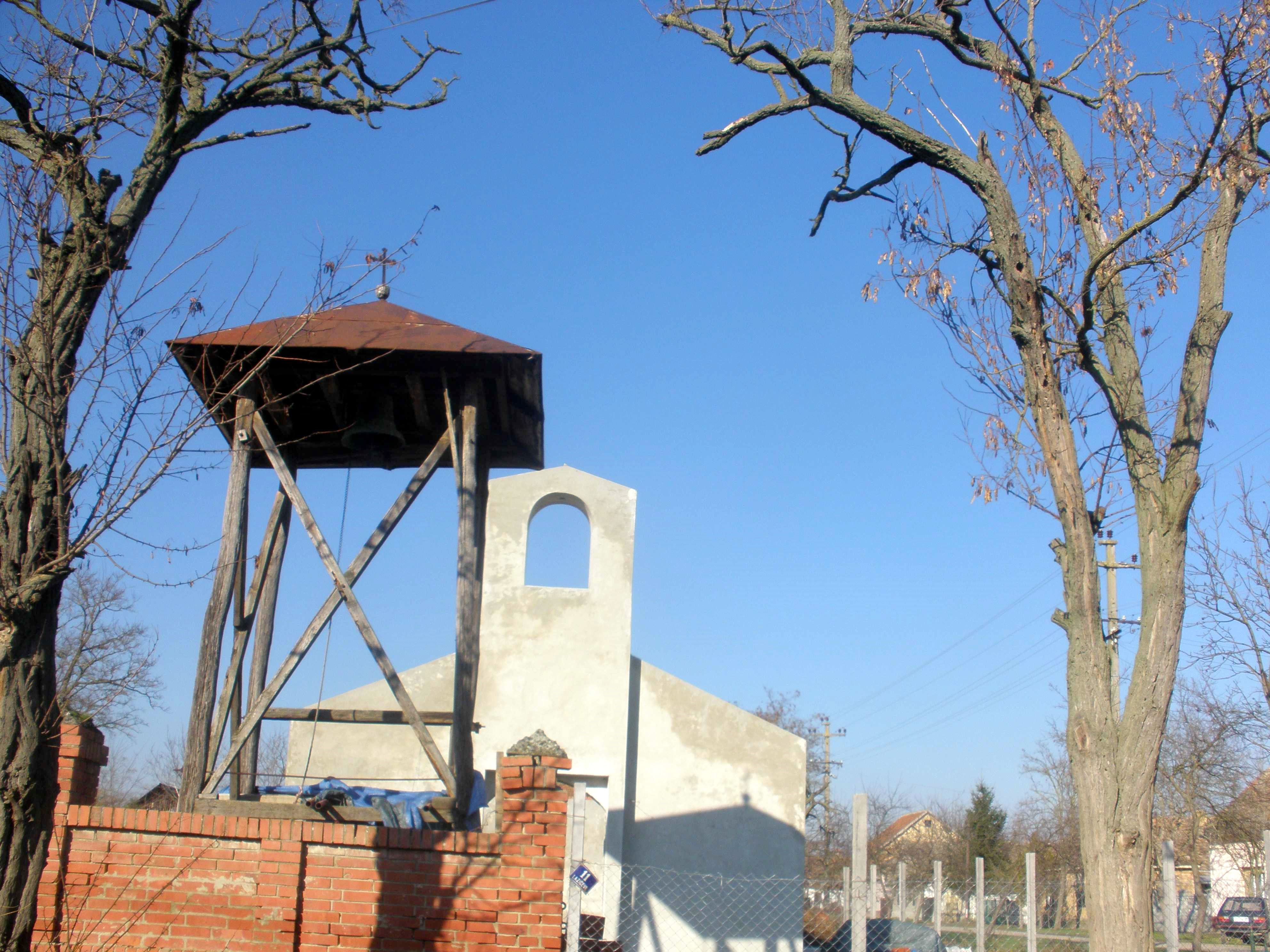 olt tower and new building of Catholic church of St. Catherina